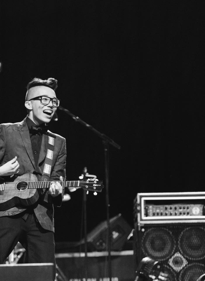 2016 Aidan James